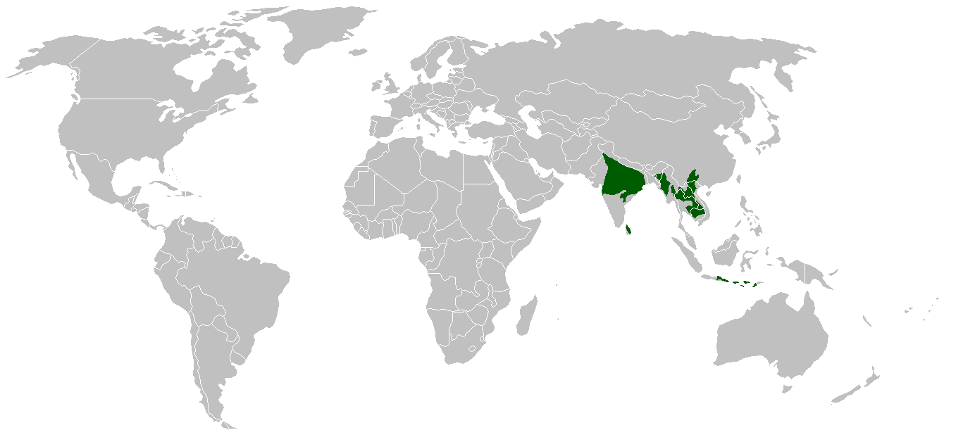 Location on monsoon forests in the world.